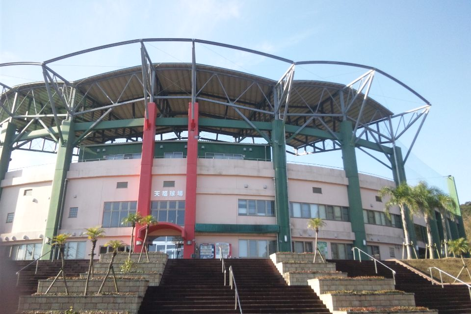 Nichinan Tempuku Baseball Stadium, Miyazaki Japan